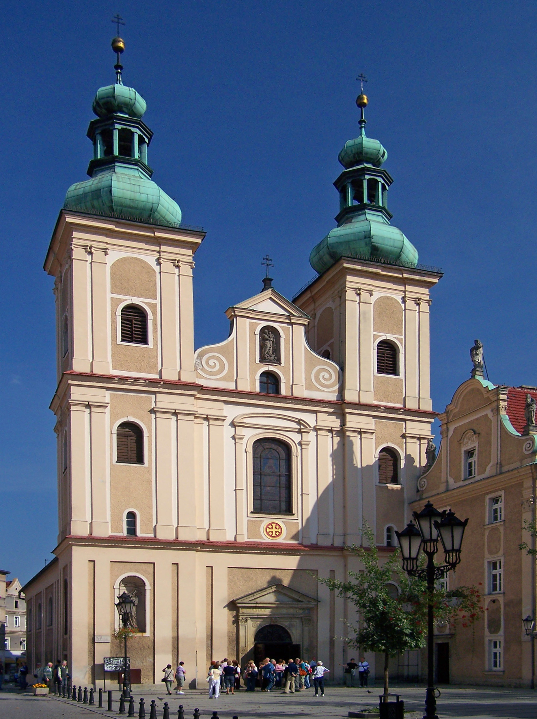 Church of St. Maria in Kłodzko (Lower Silesia, Poland).